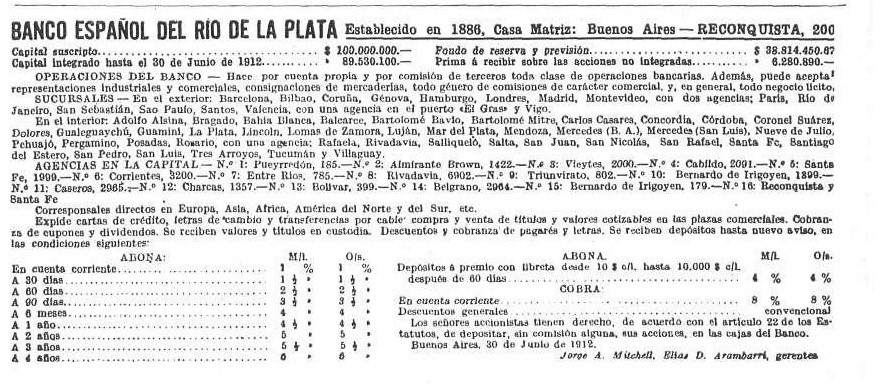 commercial advertisement of the Spanish Bank of the River Plate, in the magazines Caras y Caretas.